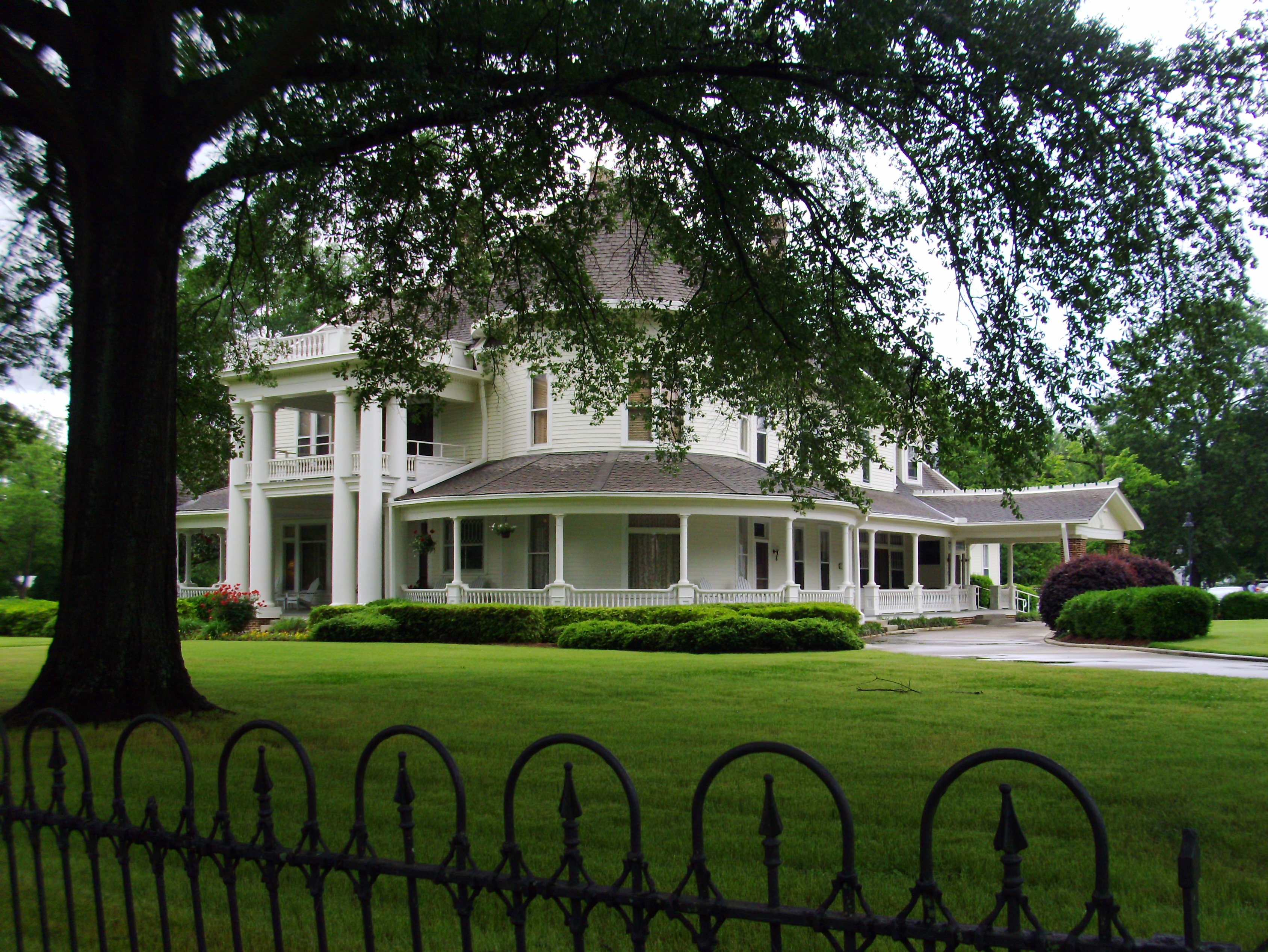 1906 Queen Anne style house with craftsman and classical additions